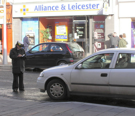 Booked! Another motorist nabbed for illegally parking on Omagh's Market Street.